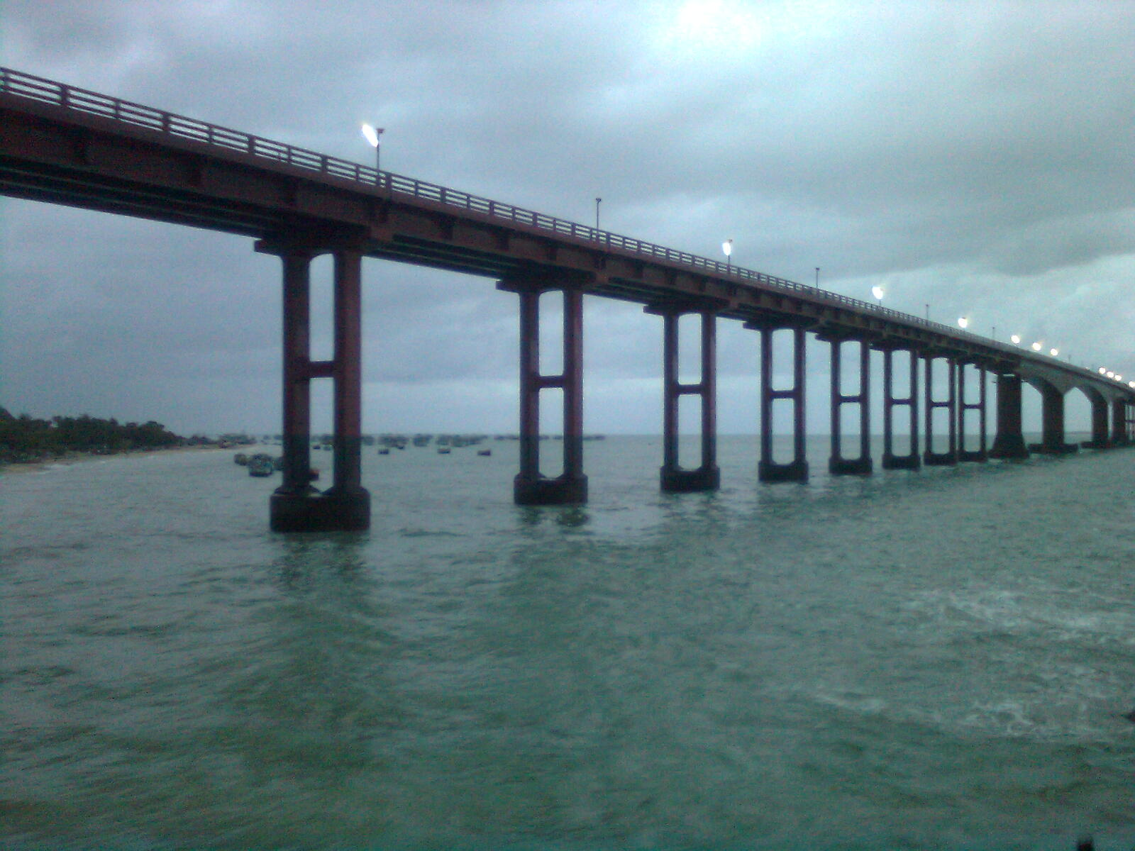 Pamban Bridge, Rameswaram